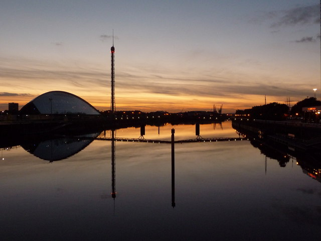 Glasgow: sunset over the Clyde, near to Govan, Glasgow, Great Britain.